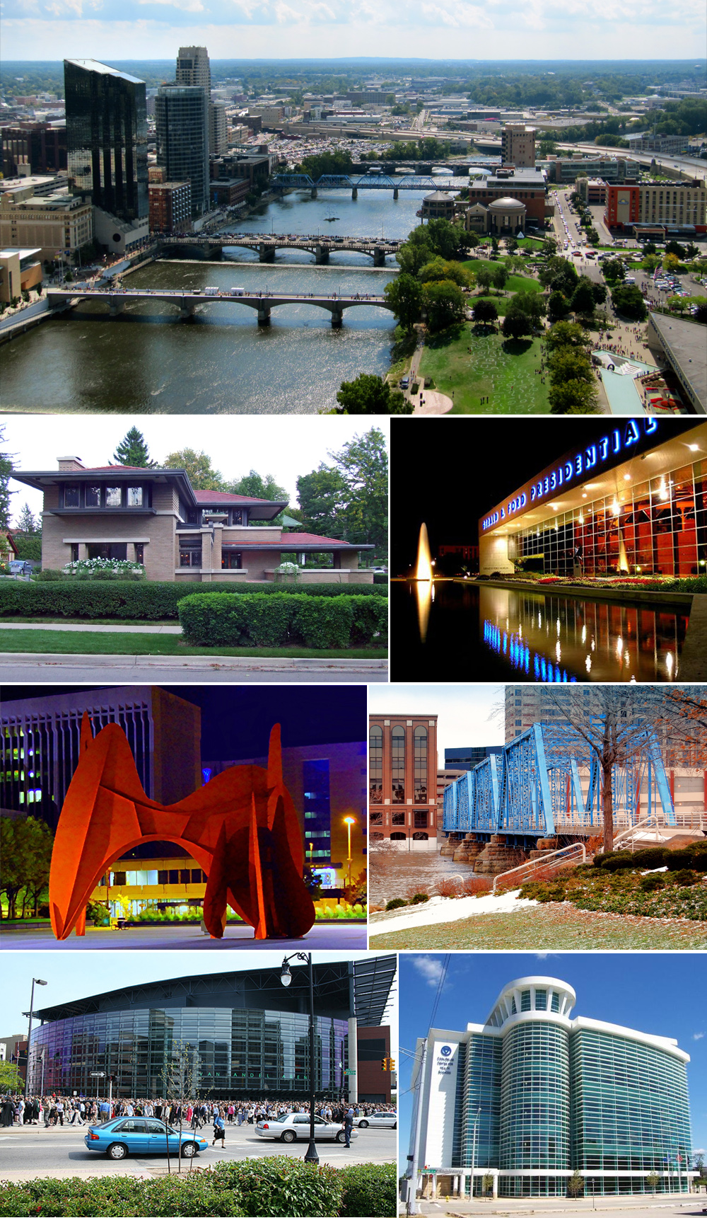 Montage of Grand Rapids images on Commons